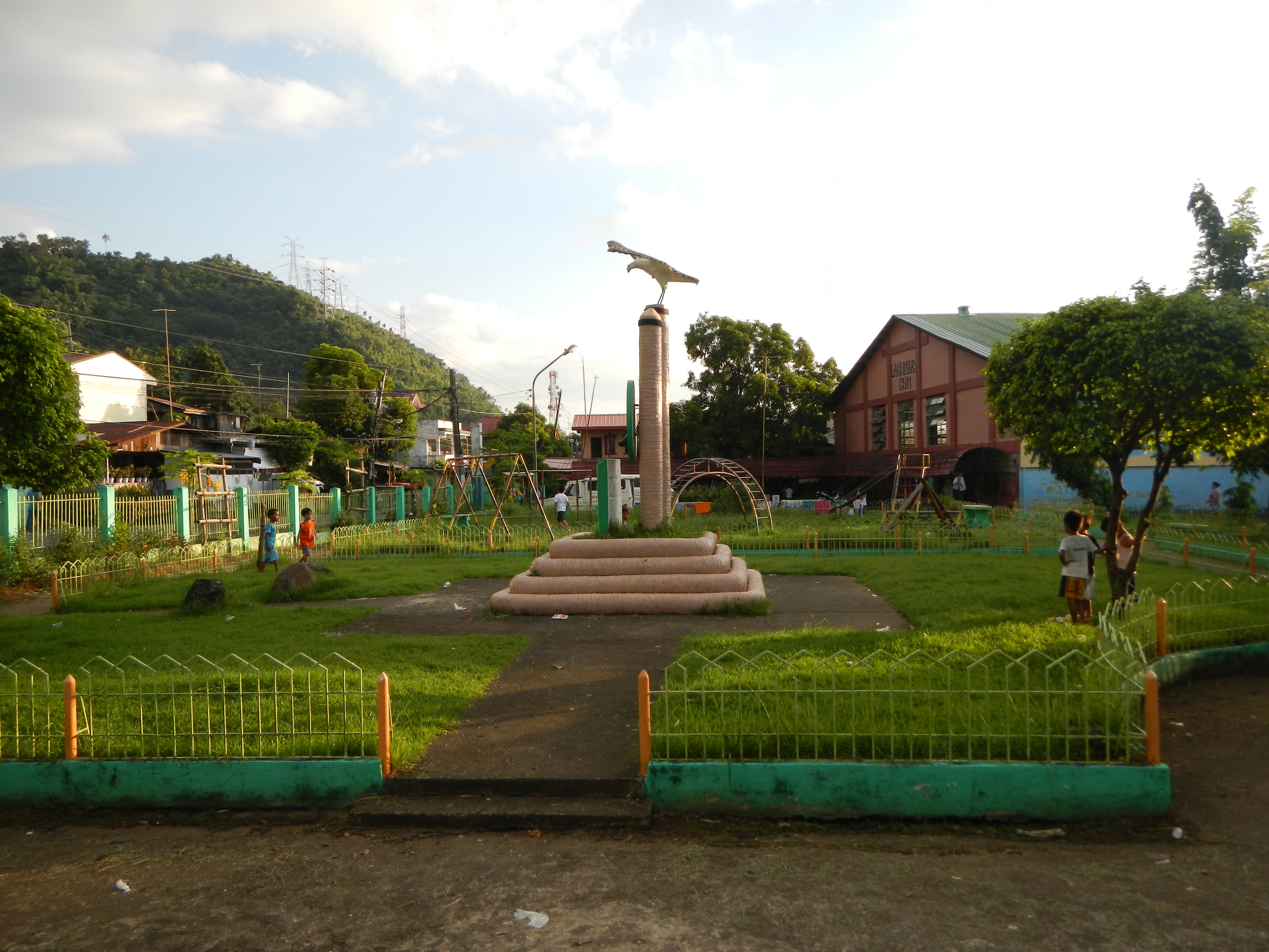 UploadWizard photos --- (general description of landmarks, heritage, culture, comprehensive, photography) of – Bahay Pamahalaan ng Kalayaan - Town hall and surrounding Plaza Lagumbay, Lagumbay Gym, Centennial of the Town of Kalayaan Monument and Marker, Marble Stone, the WWII and Veterans Memorial, Monument, San Juan National High School and scenery of ---- Kalayaan, Laguna[1] (third class municipality in the province of Laguna,[2] Philippines; latest census, population of 20,944 people subdivided into 3 barangays.[3] Website [4] Geographical location: Laguna, Region 4, Philippines, Asia Geographical coordinates: 14° 21' 0" North, 121° 34' 0" East [5] Coordinates: 14°19'34"N 121°32'31"E; its highest elevations are from 400 to 418 metres).R.A. No. 1417